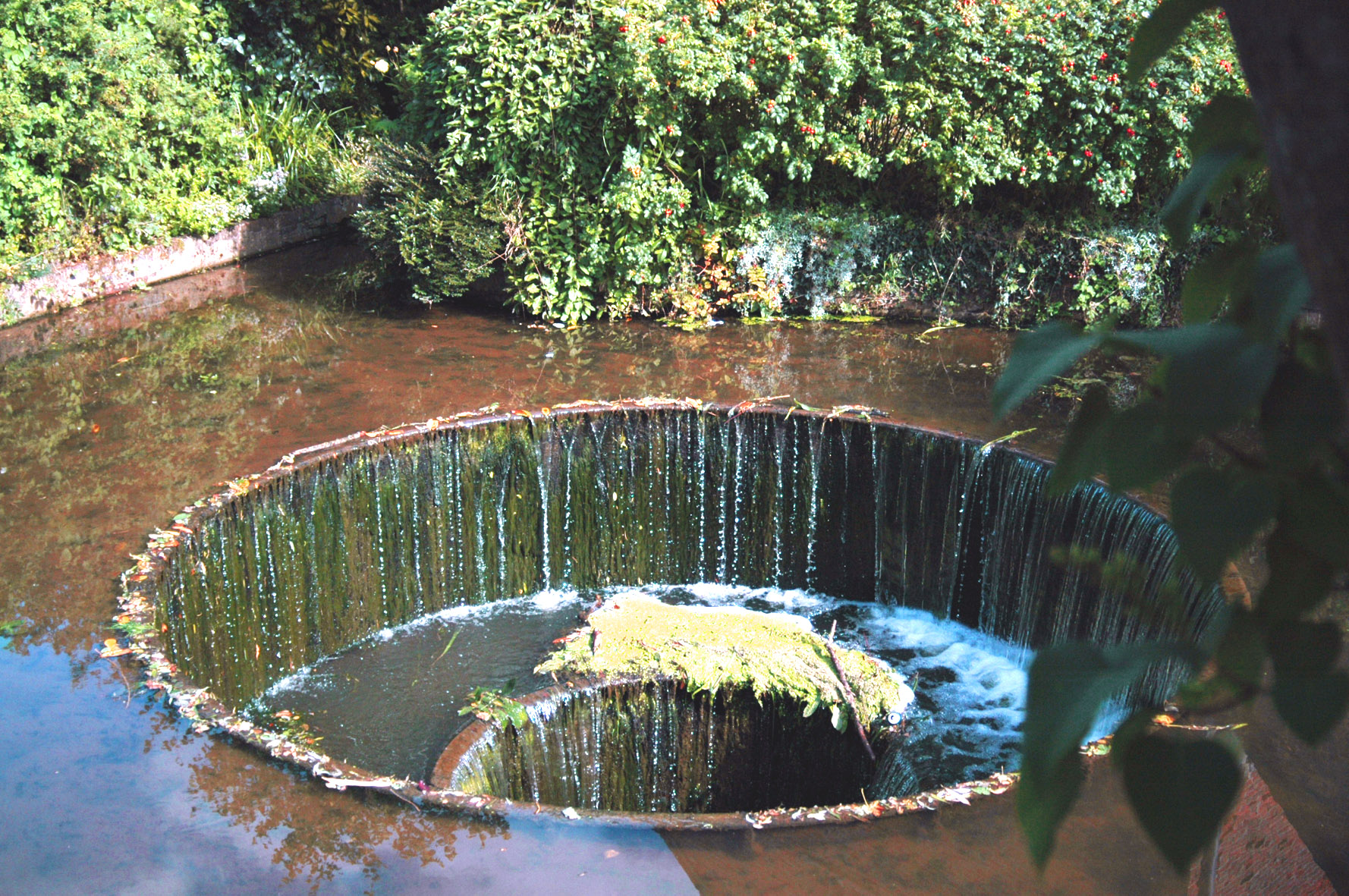 Tumbling Weir, Ottery St Mary, Devon, UK. The water flows inwards over concentric circles, returning to the River Otter from the leat via an underground tunnel